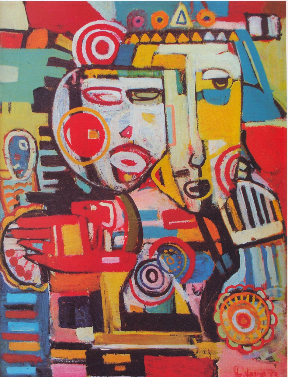 Vruir Galstian Qo Erazum, 1973, Modern Art Museum, Yerevan